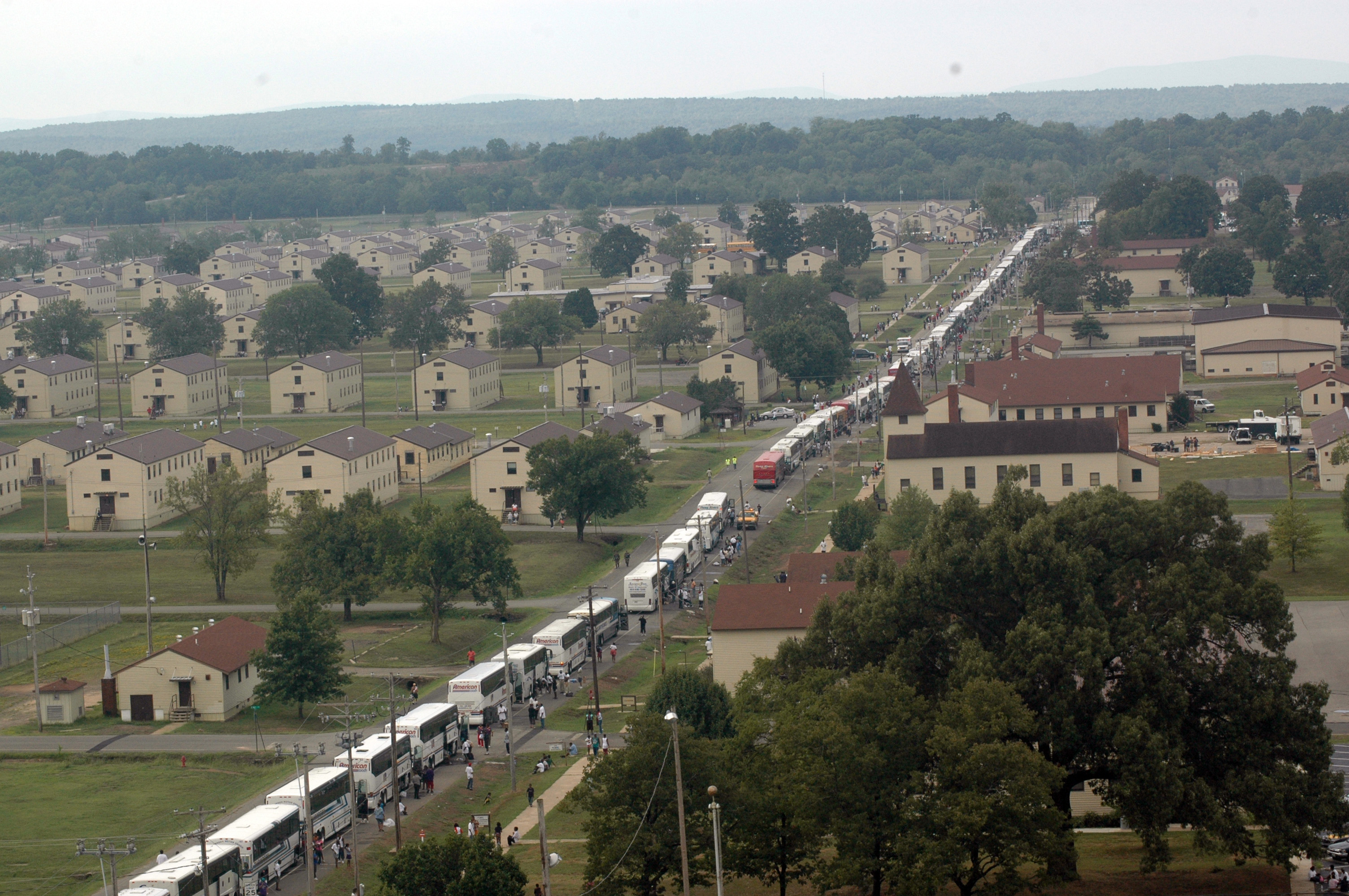 Hundreds of buses disgorge thousands of Hurricane Katrina evacuees at Fort Chaffee Arkansas National Guard post on Sept. 4, 2005. More than 10,000 evacuees took up temporary residence at Fort Chaffee. Department of Defense units are mobilized as part of Joint Task Force Katrina to support the Federal Emergency Management Agency's disaster relief efforts in the Gulf Coast areas devastated by Hurricane Katrina.